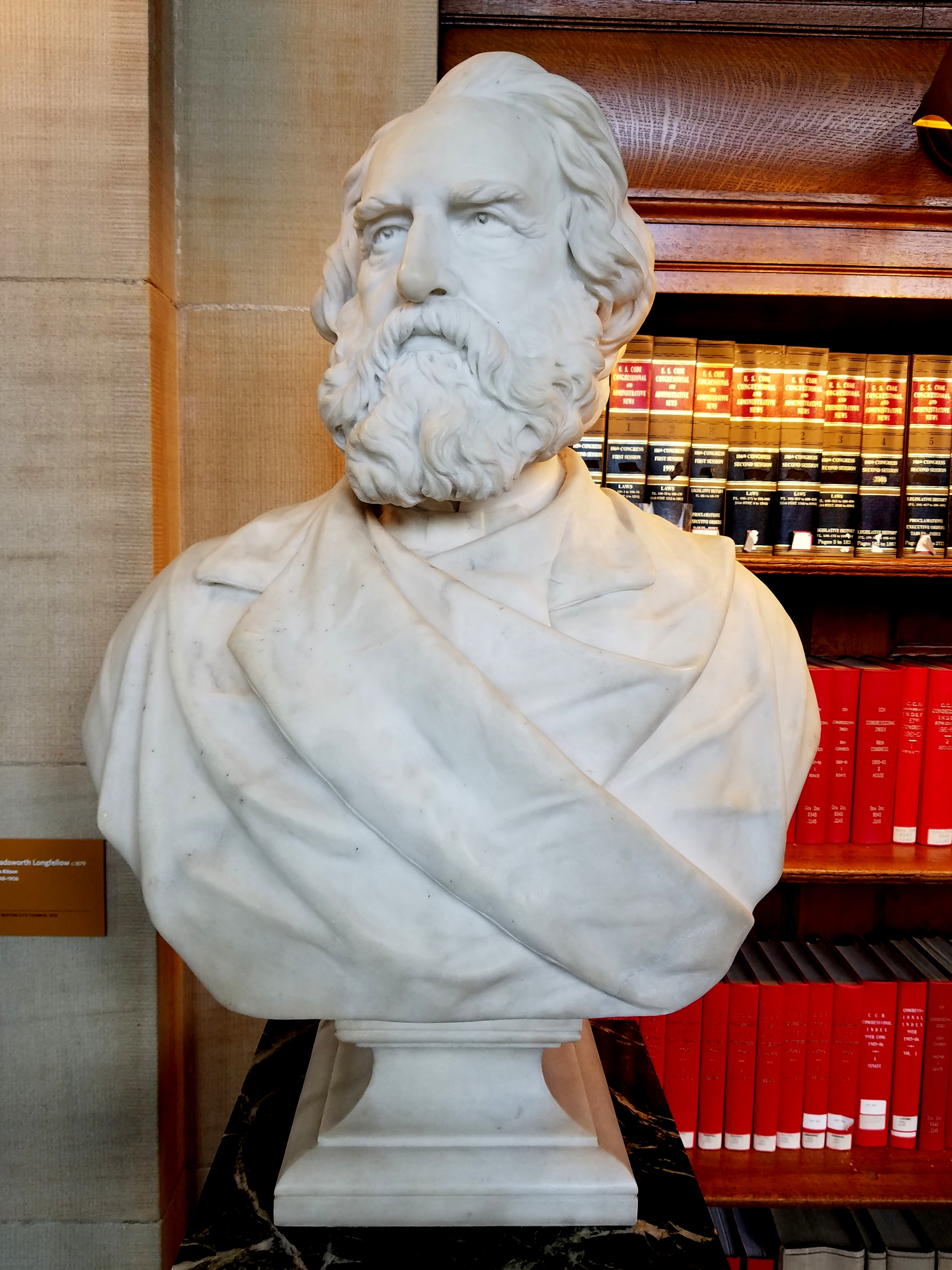 Bust within the Boston Public Library - Boston, Massachusetts, USA.